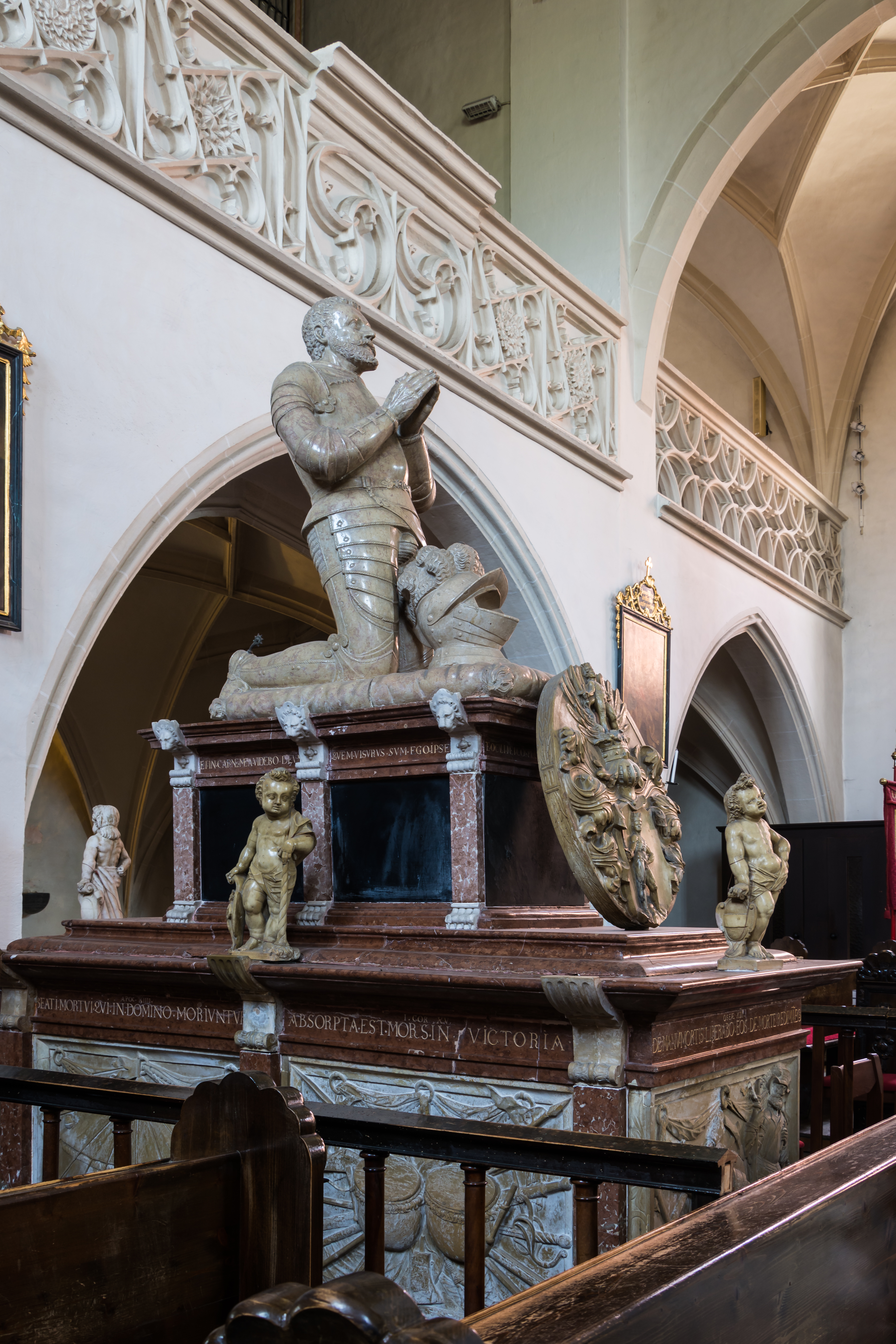 Cenotaph for Johannes Georg III. von Kuefstein at the parish- and pilgrimage church Maria Laach am Jauerling, Lower Austria. Created by Alexander Colin between 1604 and 1607.